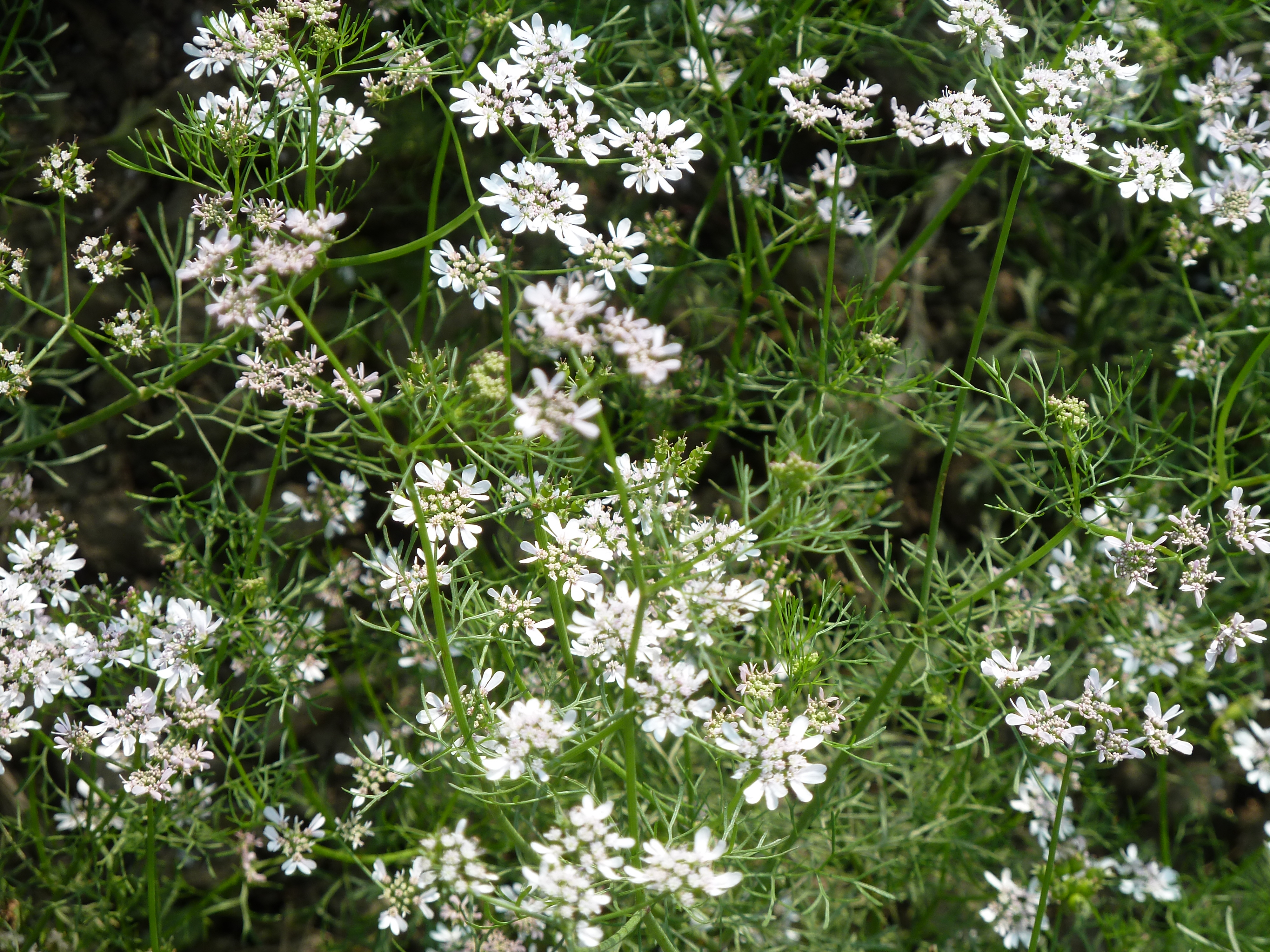 Coriader Flower (Coriandrum sativum) taken in the fields of Nadia District, West Bengal, India.